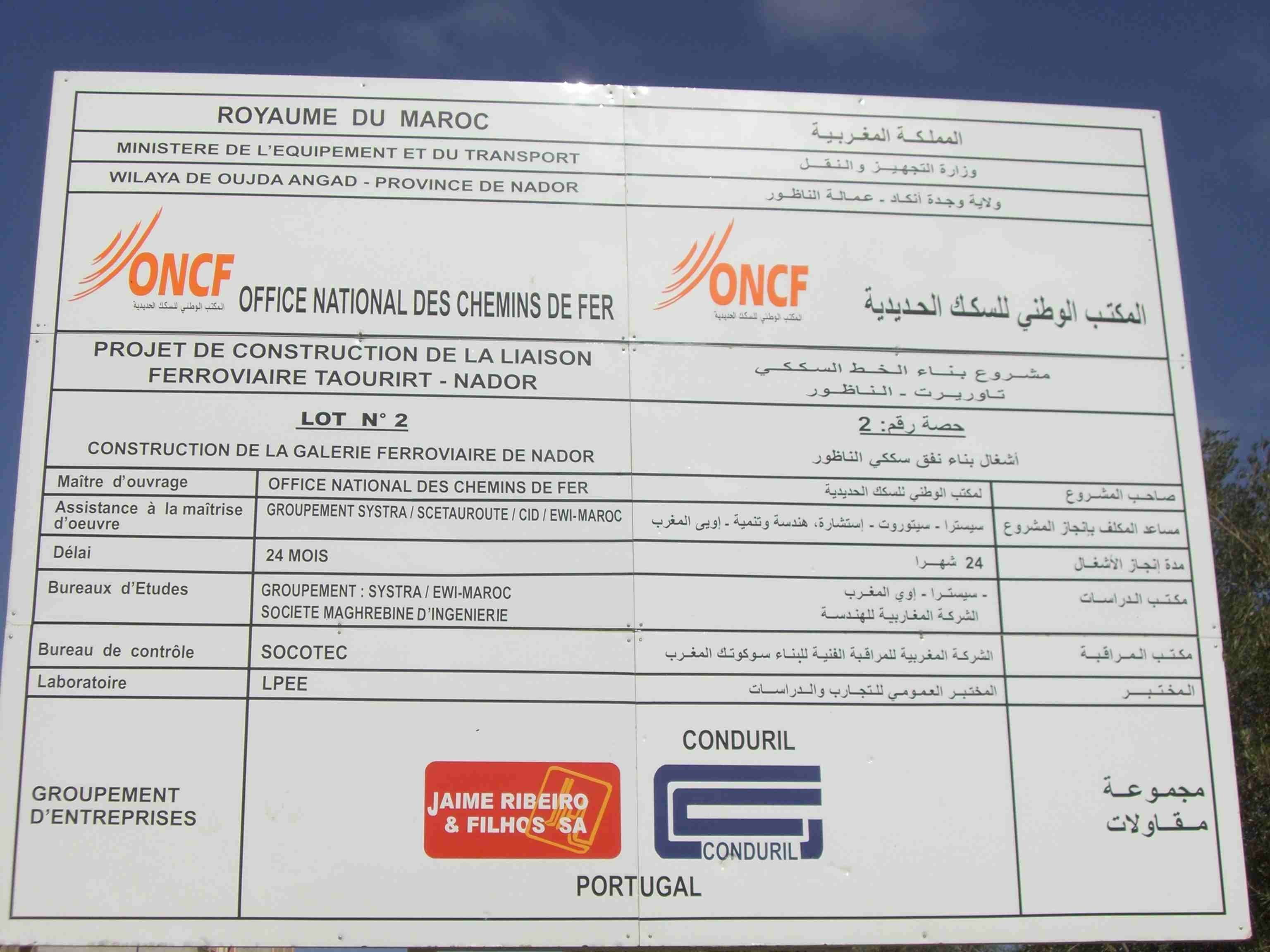 Notice regarding development of railtrack to Nador. Taken at the city limit of Nador